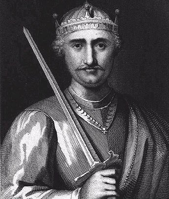 Portrait of William I of England